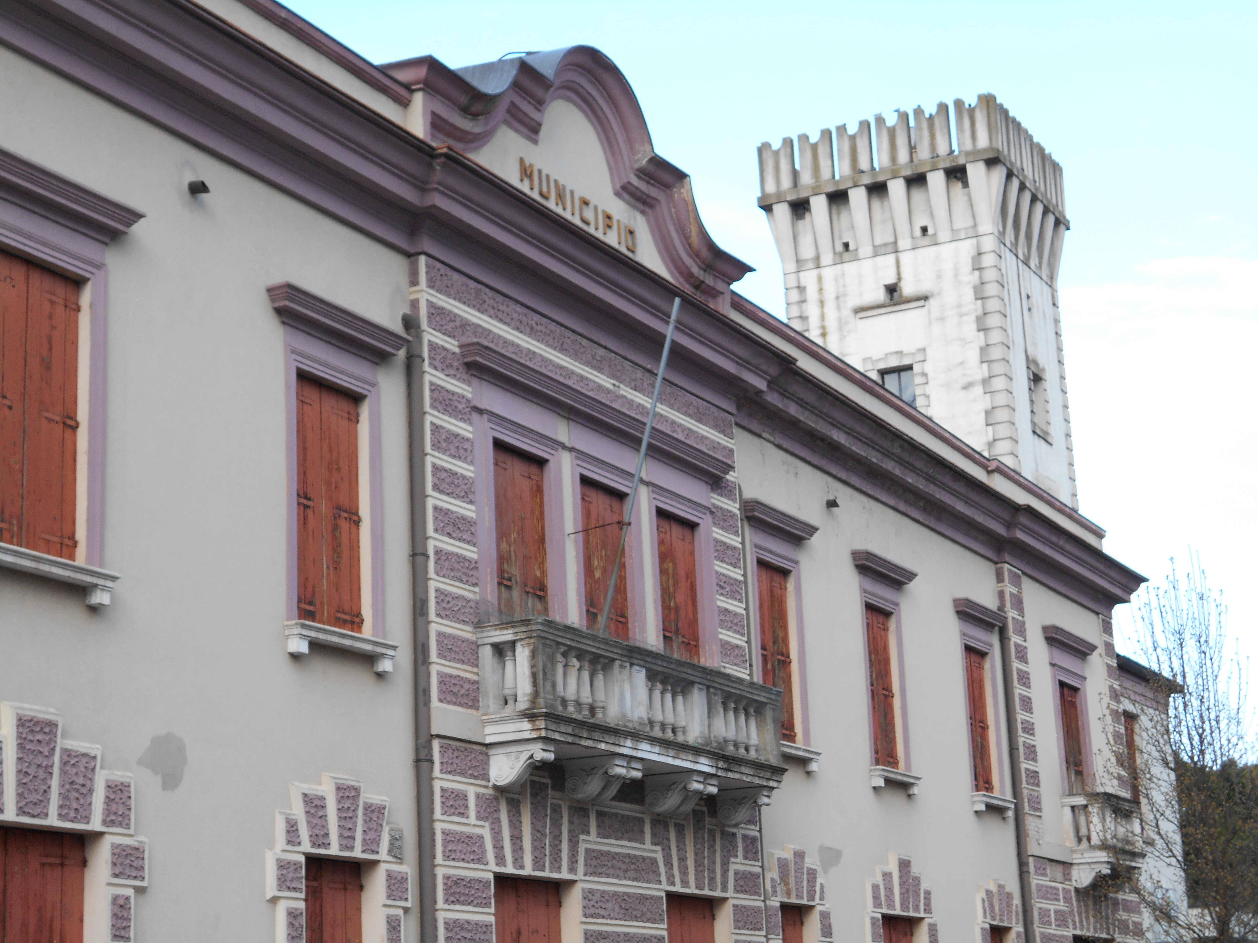 town hall, Tribano, Padua